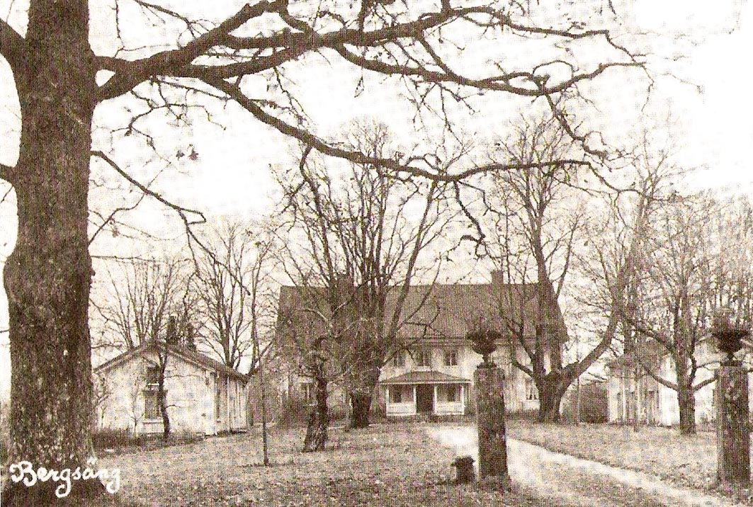 Bergsängs Gård, Gyttorp, Sweden most likly around year 1900